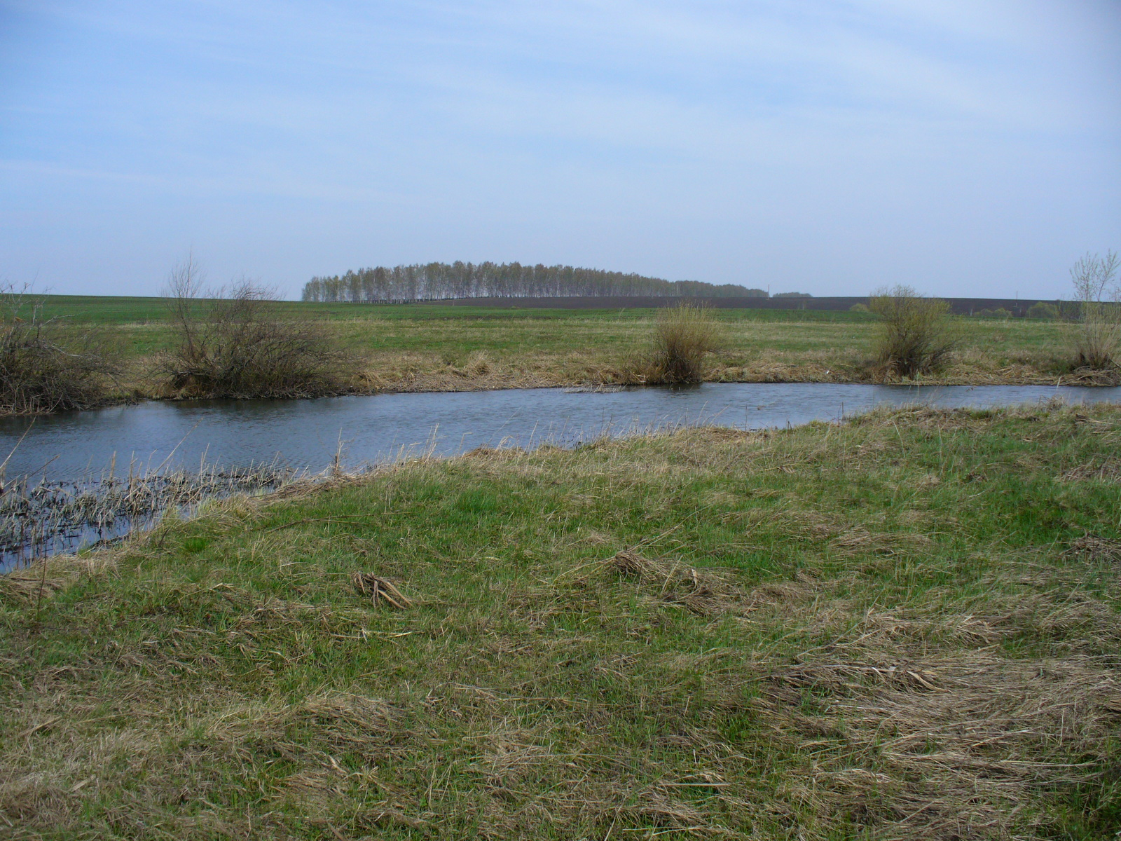 Pachoga river. 2.05.2010